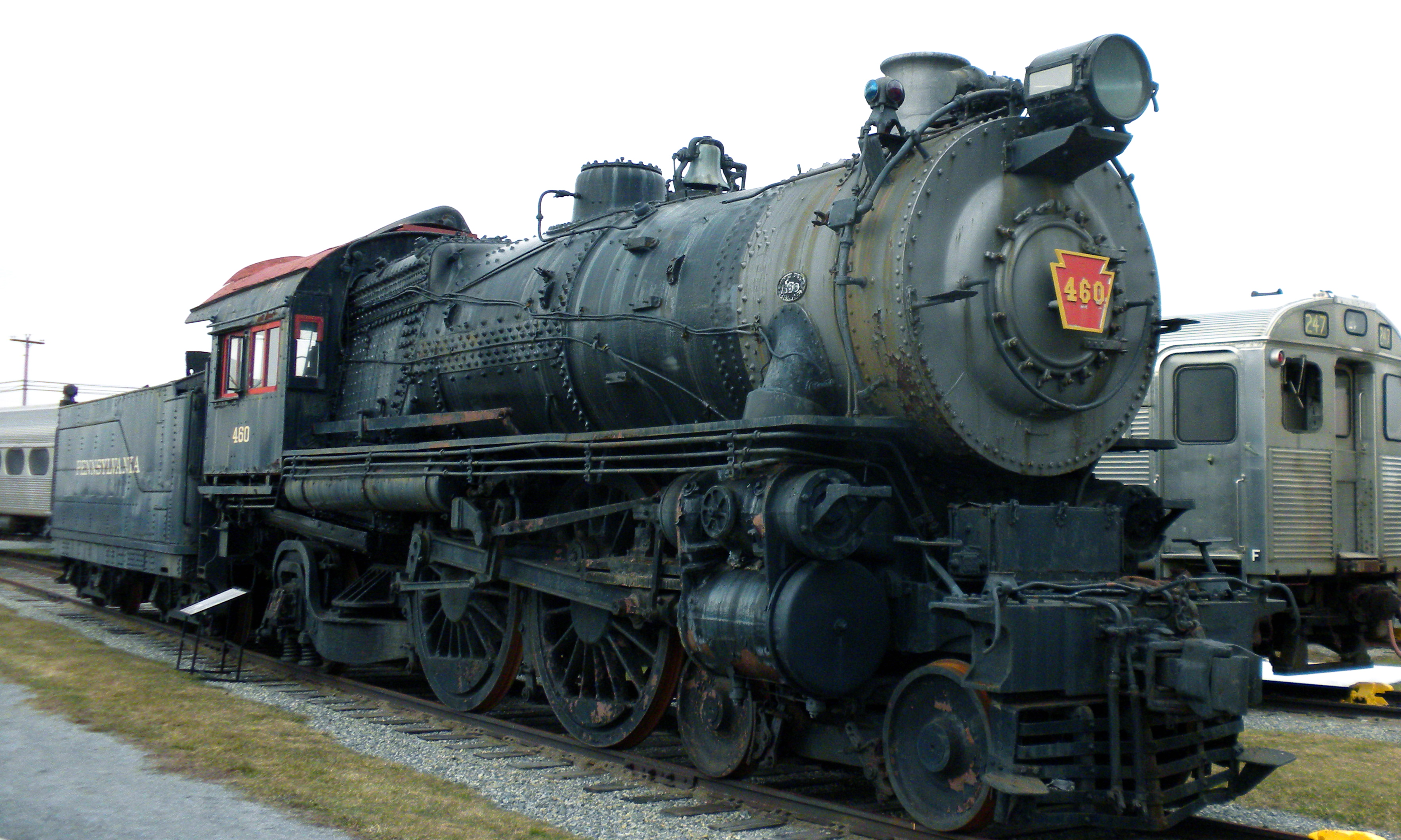 PRR steam locomotive No. 460 built 1914 at Juniata shop 4-4-2. Located at Railroad Museum of Pennsylvania, east of Strasburg, PA. On NRHP since 1979